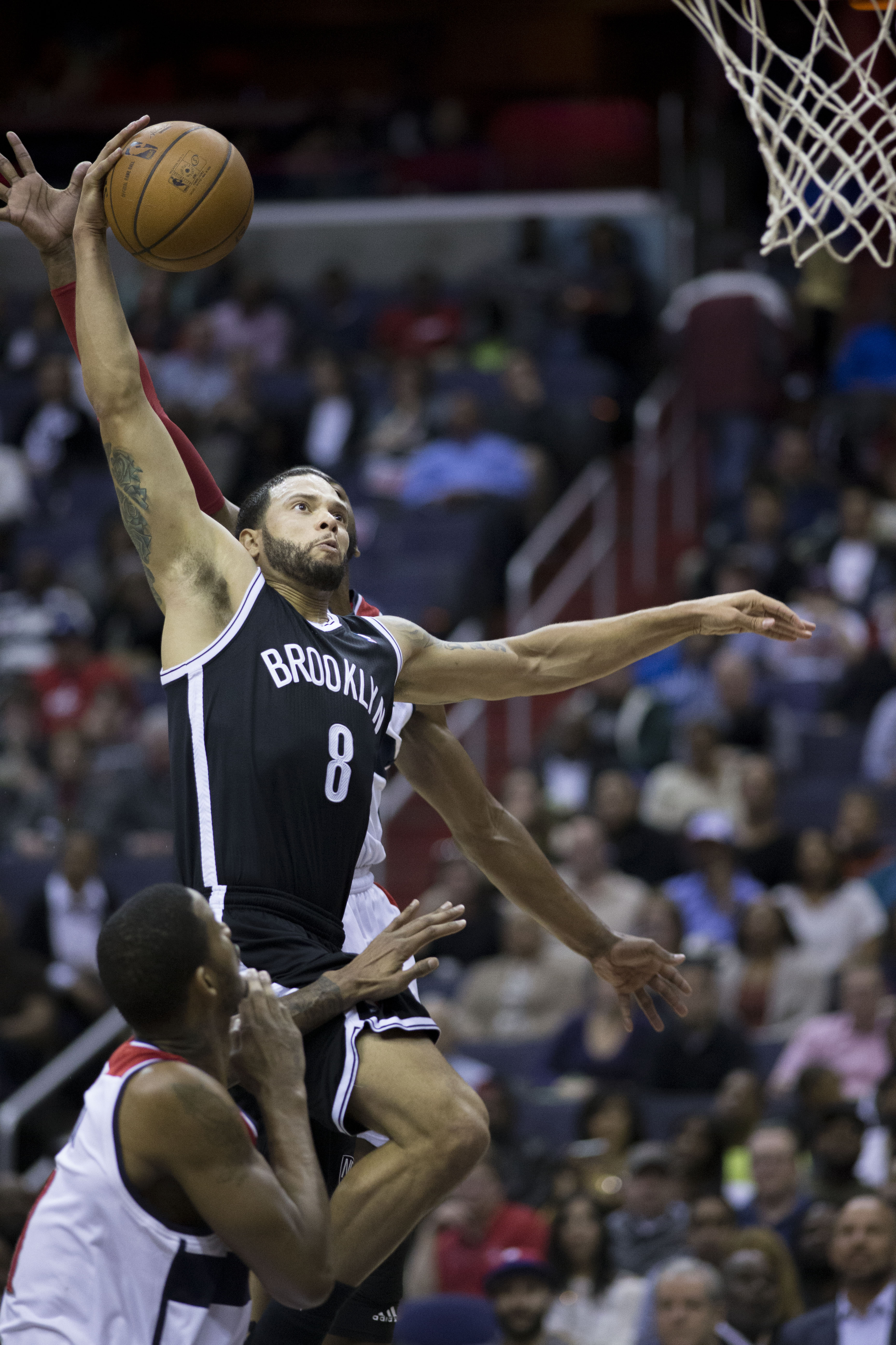 Deron Williams #8 of the Brooklyn Nets in a game against the Washington Wizards at the Verizon Center on March 15, 2014 in Washington, DC.